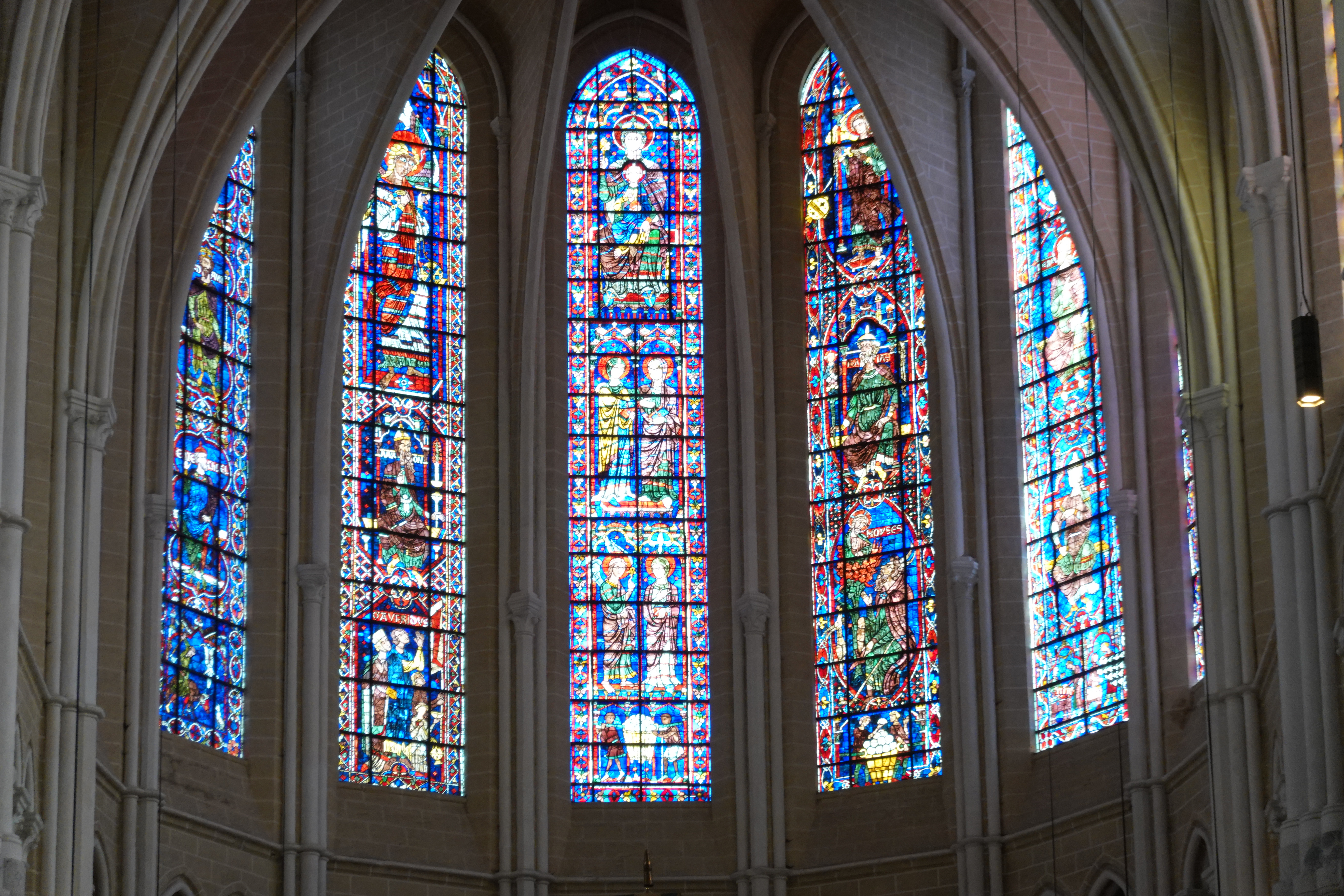 Cathédrale Notre-Dame de Chartres, Chartres, France